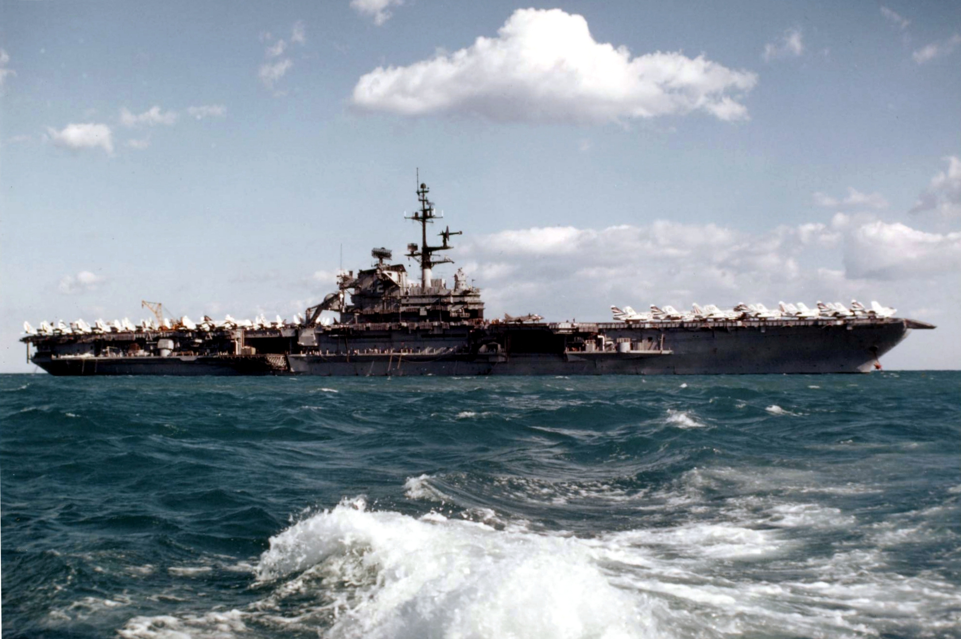 The U.S. Navy aircraft carrier USS Franklin D. Roosevelt (CV-42) at anchor during her last Mediterranean cruise. FDR, with assigned Carrier Air Wing 19 (CVW-19), was deployed to the Mediterranean Sea from 4 October 1976 to 21 April 1977.